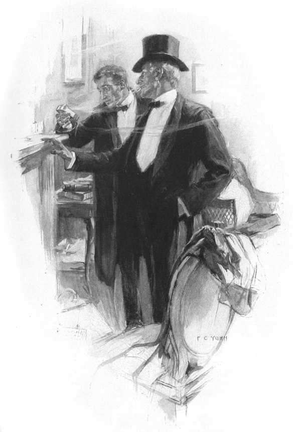 Illustration by F. C. Yohn for E. W. Hornung's short story "No Sinecure". Published in Scribner's Magazine, 1901.